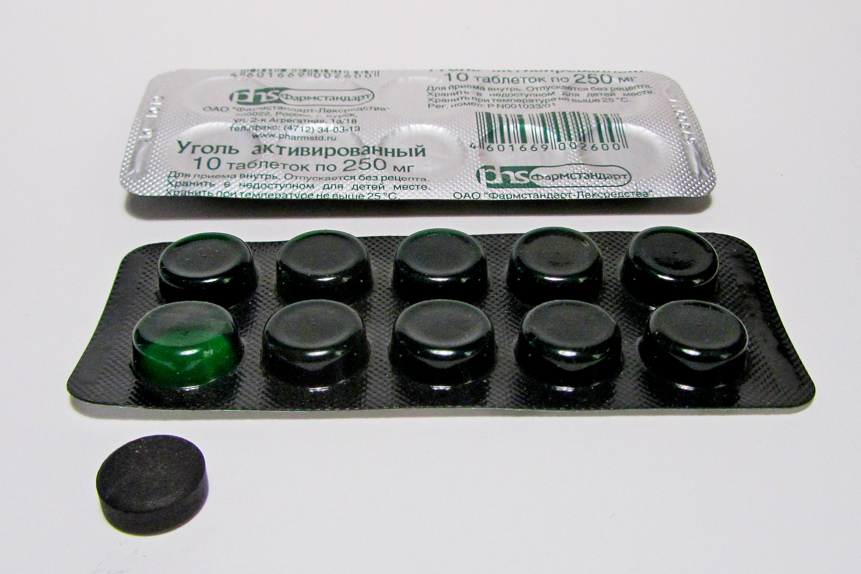 Activated carbon